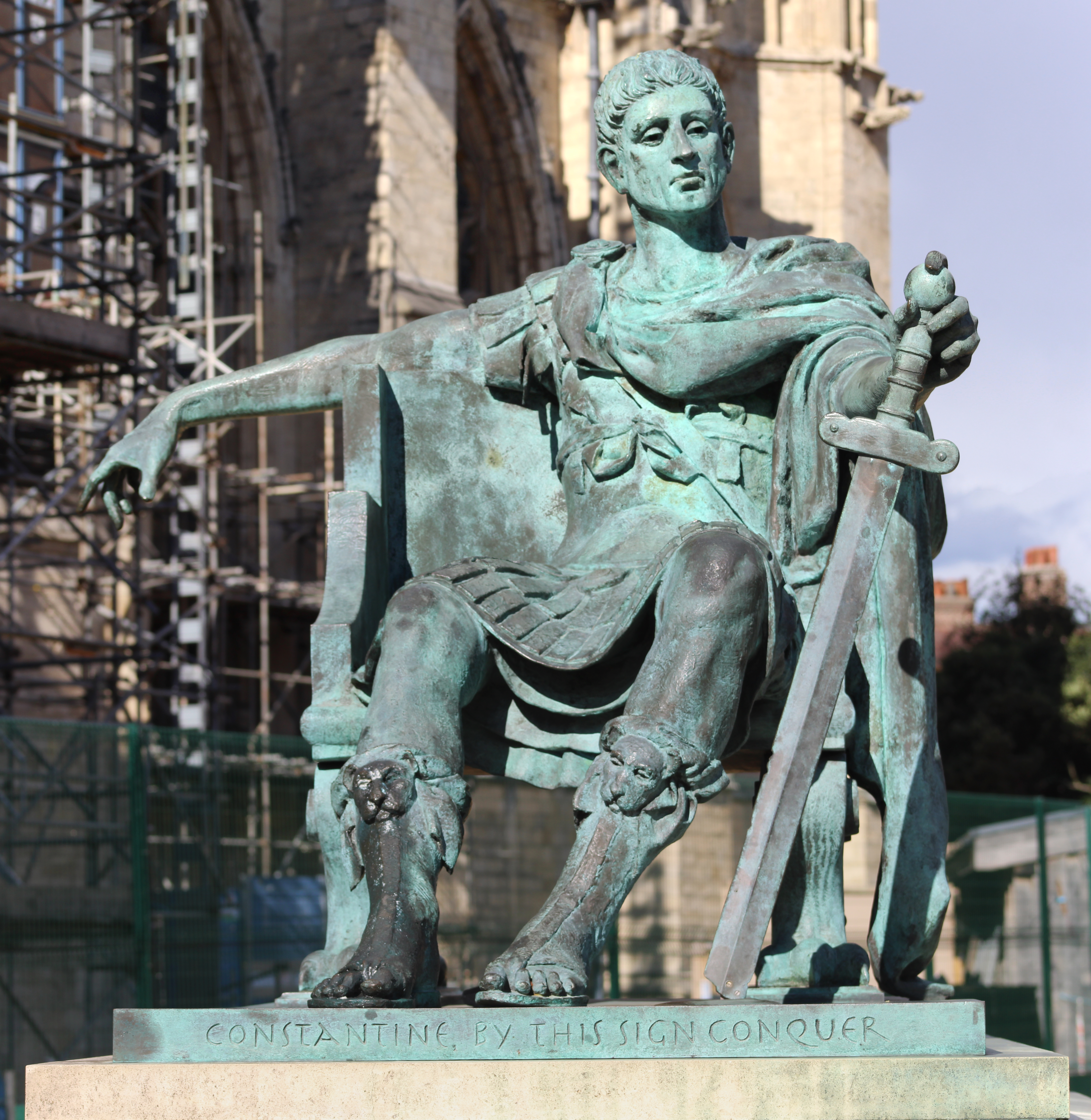 Statue of Constantin the Great in York, United Kingdom.